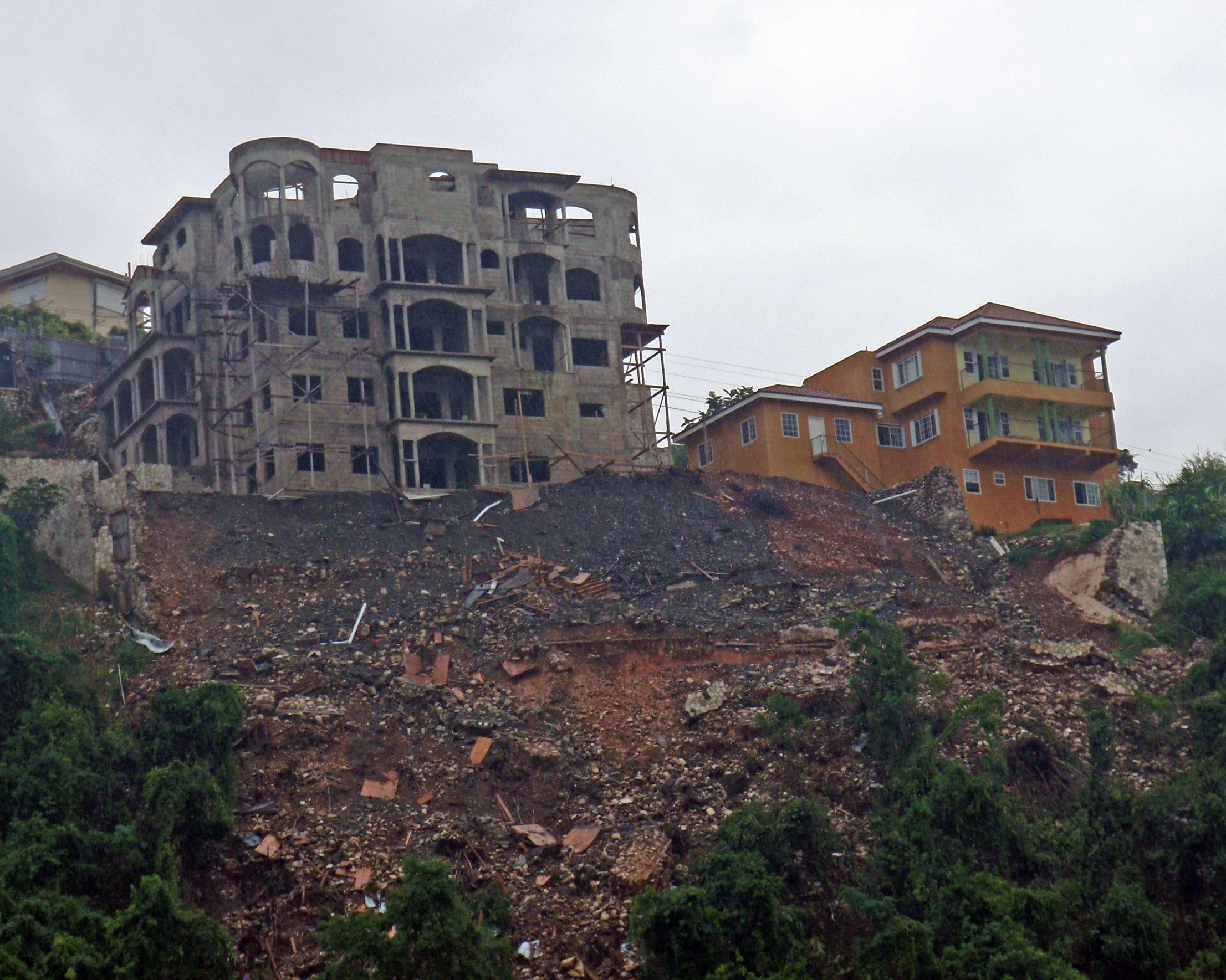 Landslide killed three people after TS Nicole in 2010.